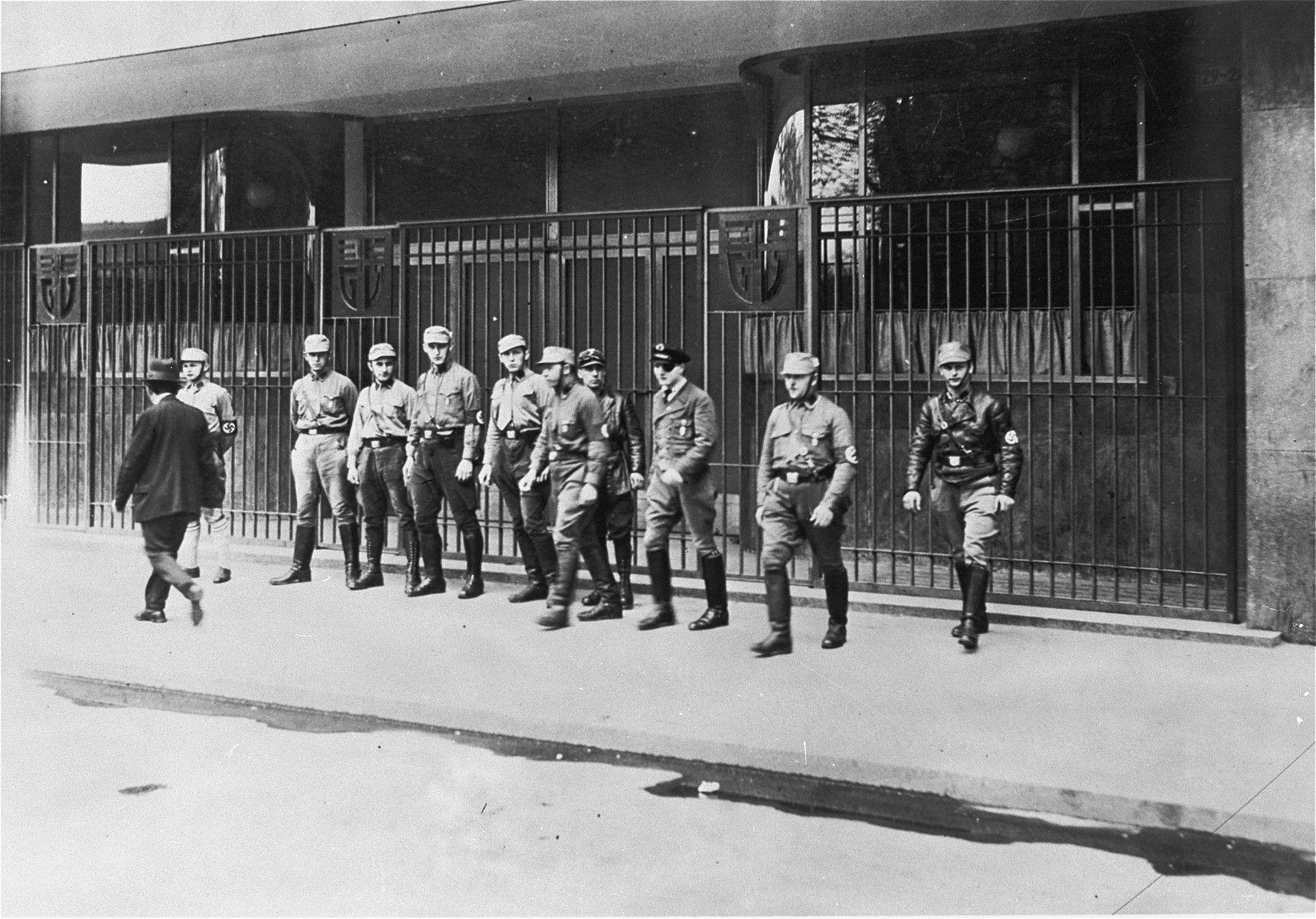 See title